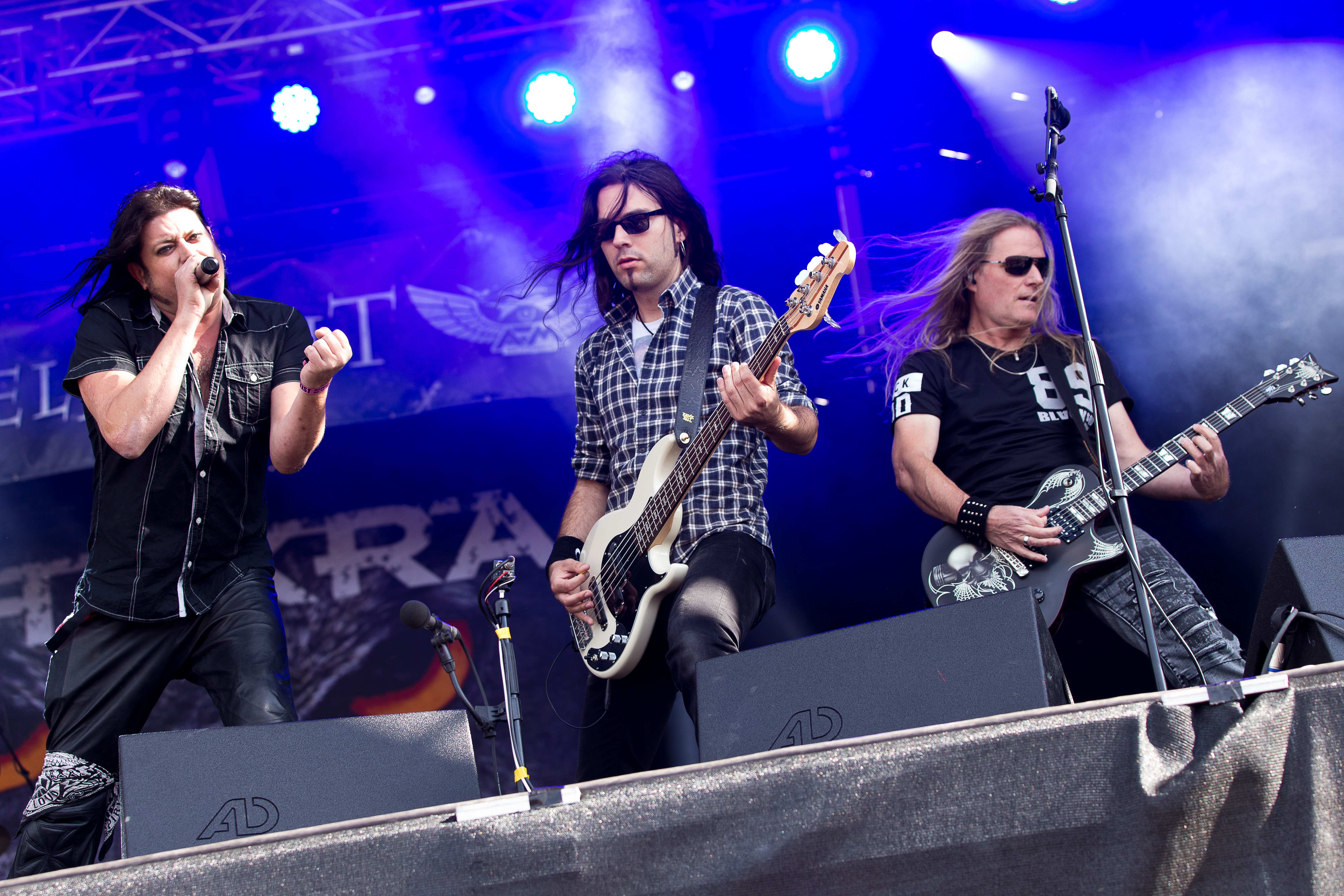 The Swiss hard rock band Shakra at the Rockharz Open Air 2016 in Ballenstedt/Germany.